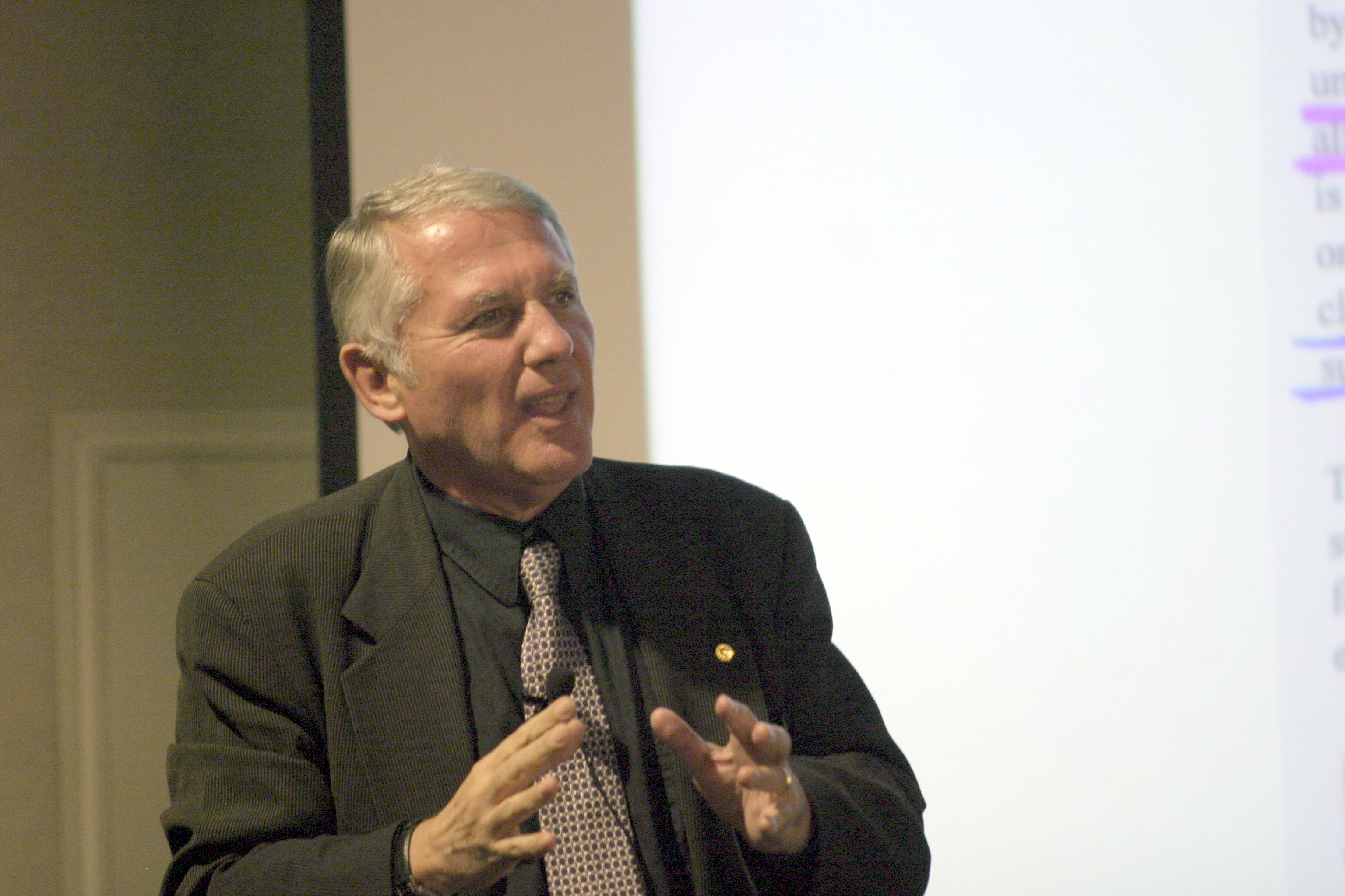 Prof. Dimitri V. Nanopoulos